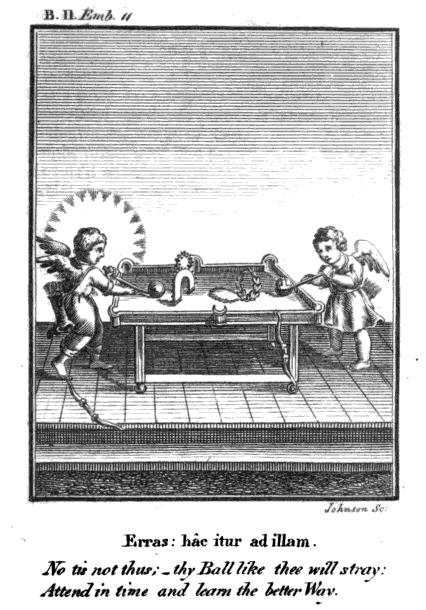 Emblem from 1808 edition of The School of the Heart of Christopher Harvey, incorrectly attributed to Francis Quarles.